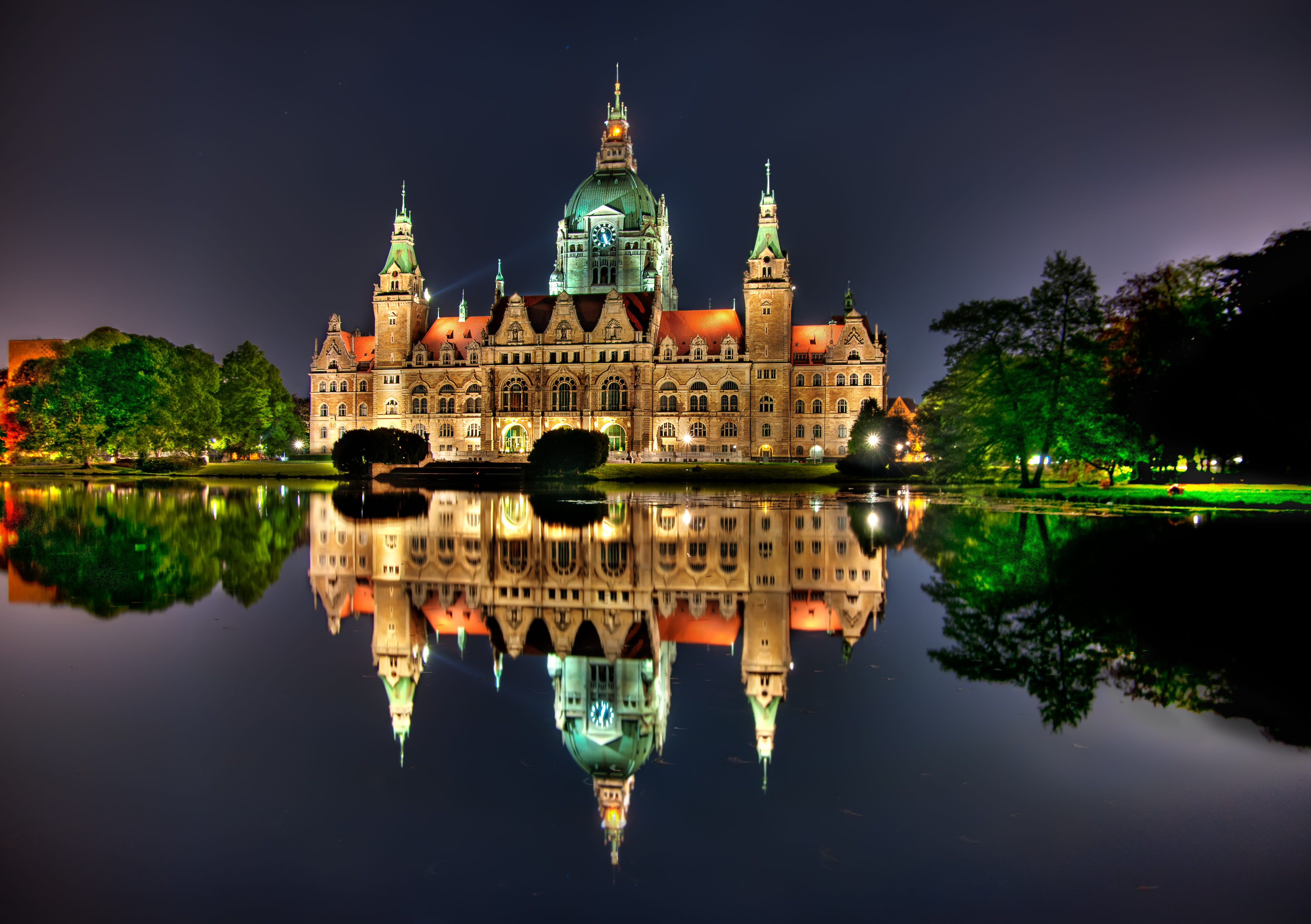 Hanover, Germany, Neues Rathaus at night